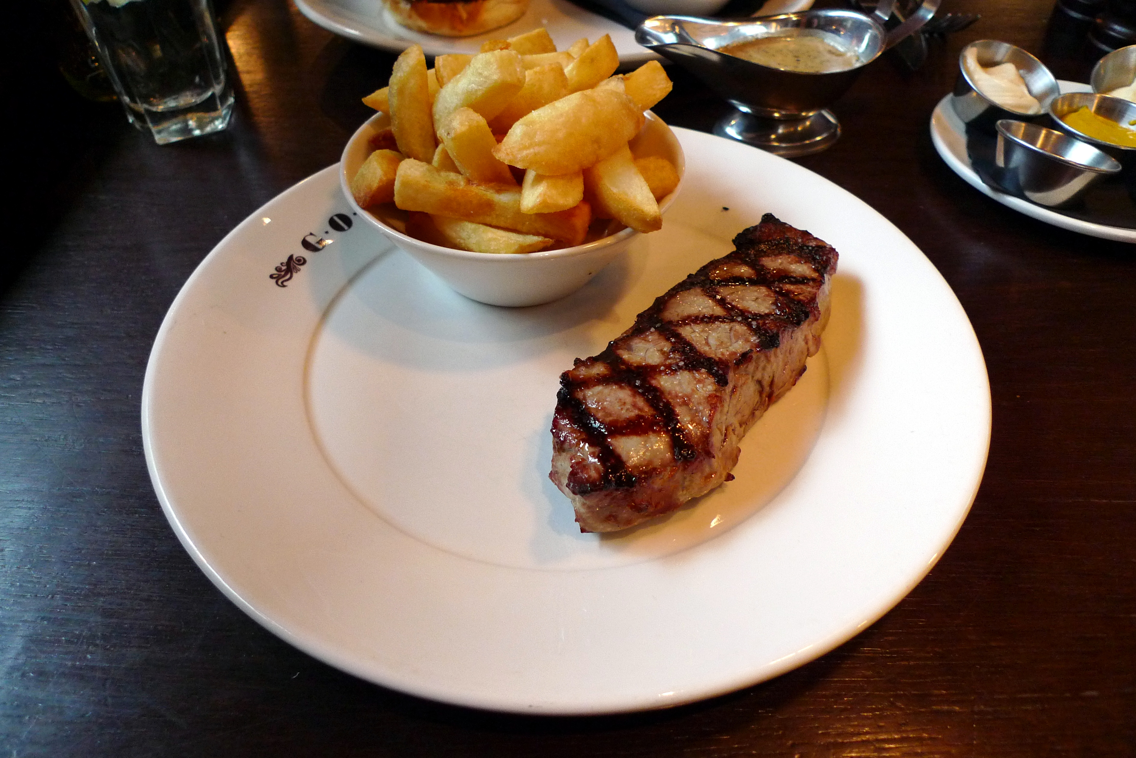 The strip steak on the lunch set menu. Very good quality meat, as you'd expect, and served with a creamy Bearnaise. At Goodman, Maddox Street.